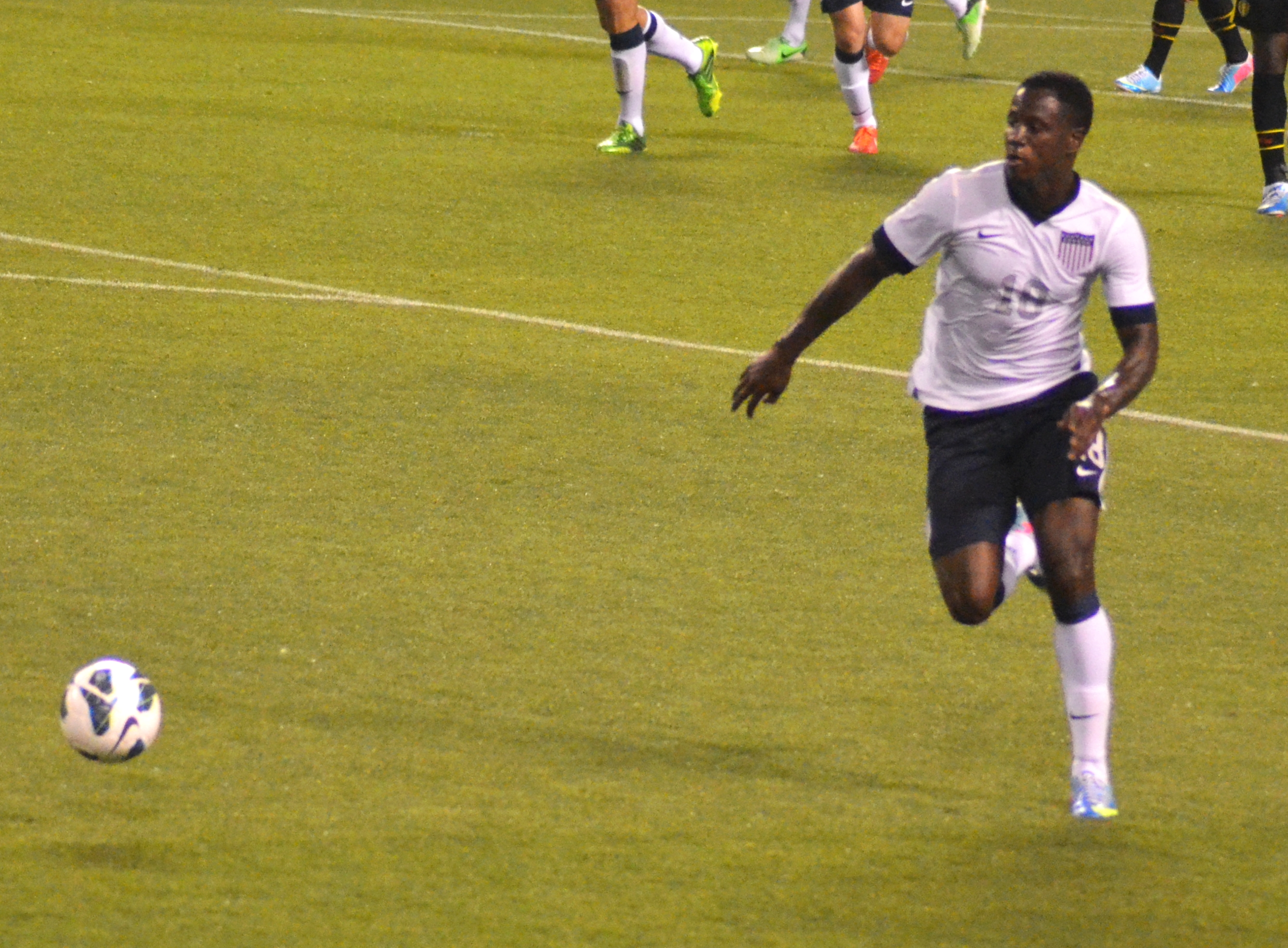 FirstEnergy Stadium Home of the Cleveland Browns